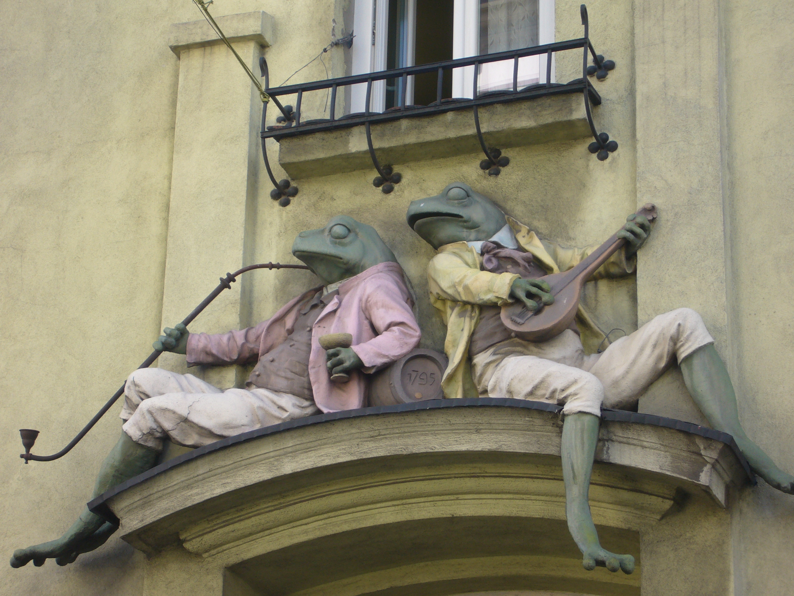 House Under The Frogs in Bielsko-Biała